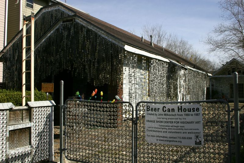 The Beer Can House took John Milkovisch a six-pack per day years to adorn the house with close to 40,000 cans.